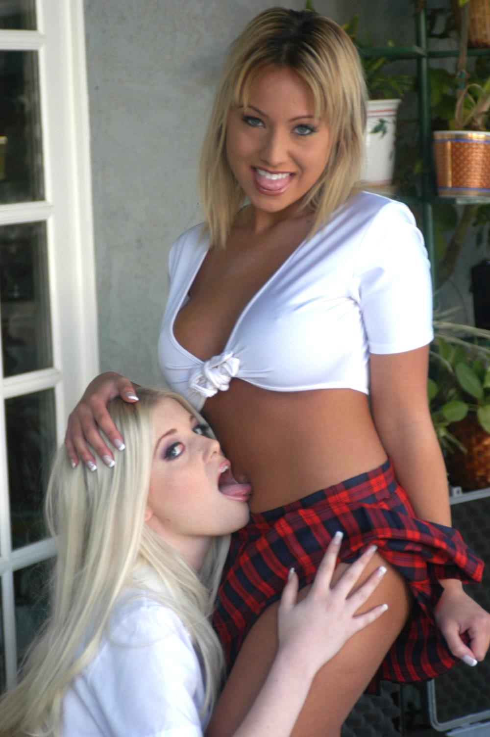 Charlotte Stokely, Jasmine Tame On Set With Da Vinci Load From Hustler Video.